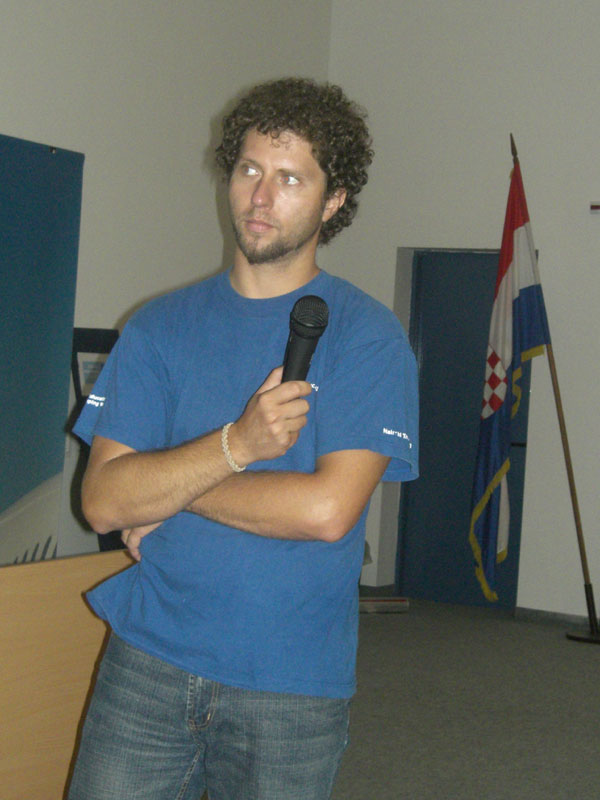 Bojan Pečnik moderating the discussion at Dalmatian Space Summer ( in Split, Croatia